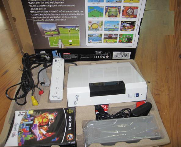 Vii, clone of Wii